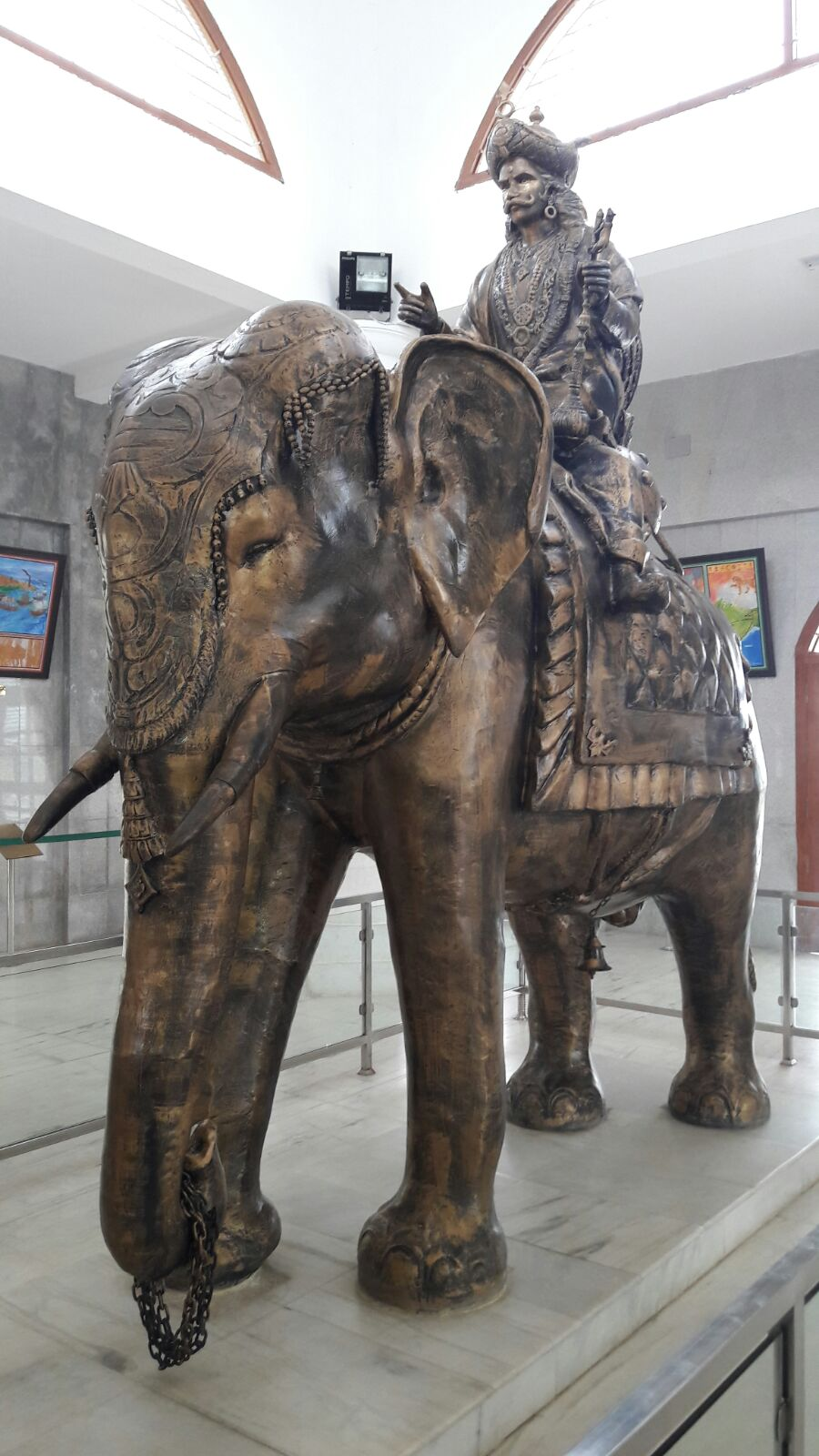 Picture of Karikala cholan taken at Kallai in Trichy